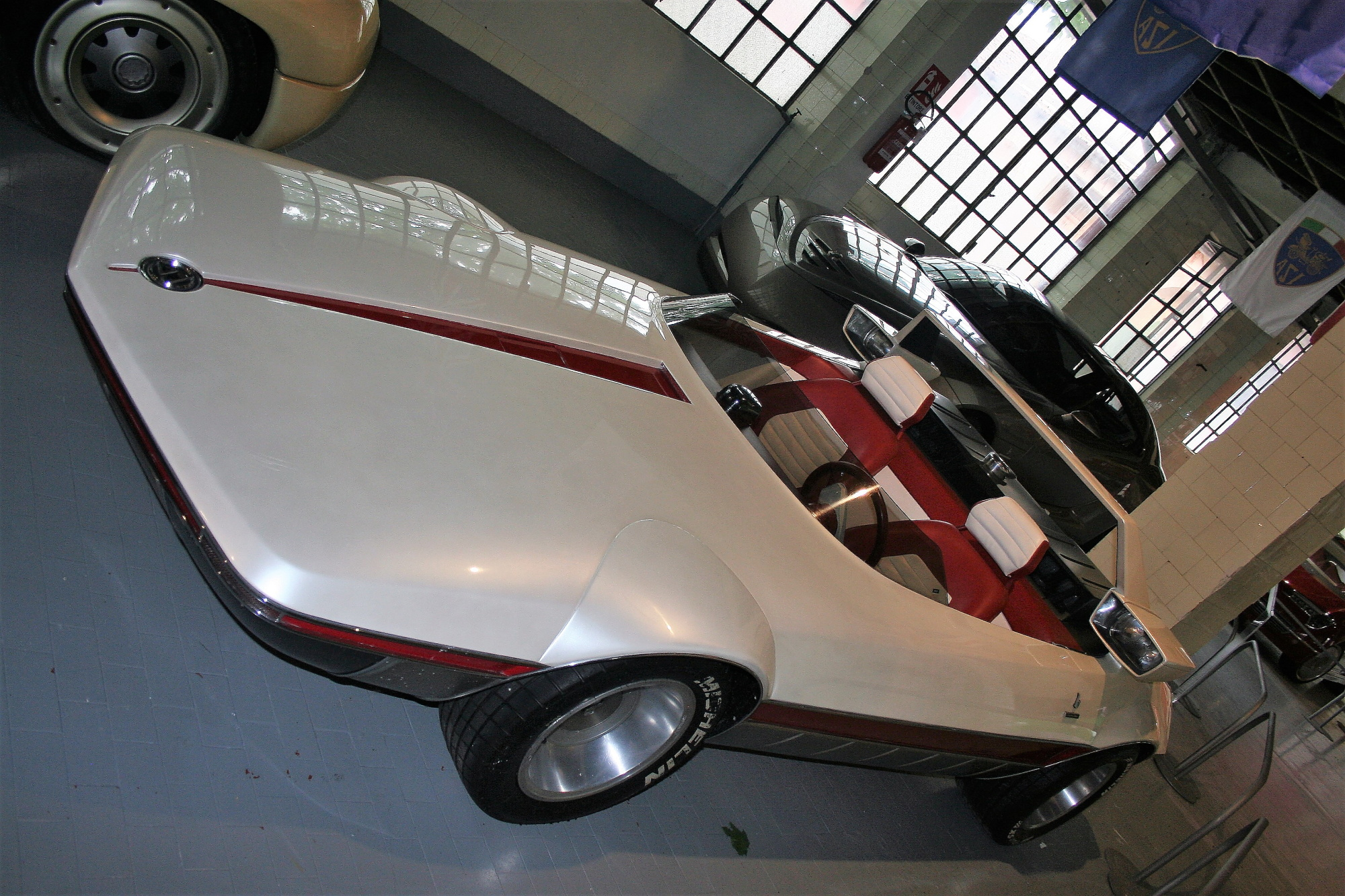 At the Bertone collection of the Automotoclub Storico Italiano (ASI), located in Volandia outside of Milan (by the Malpensa airport and museum areas